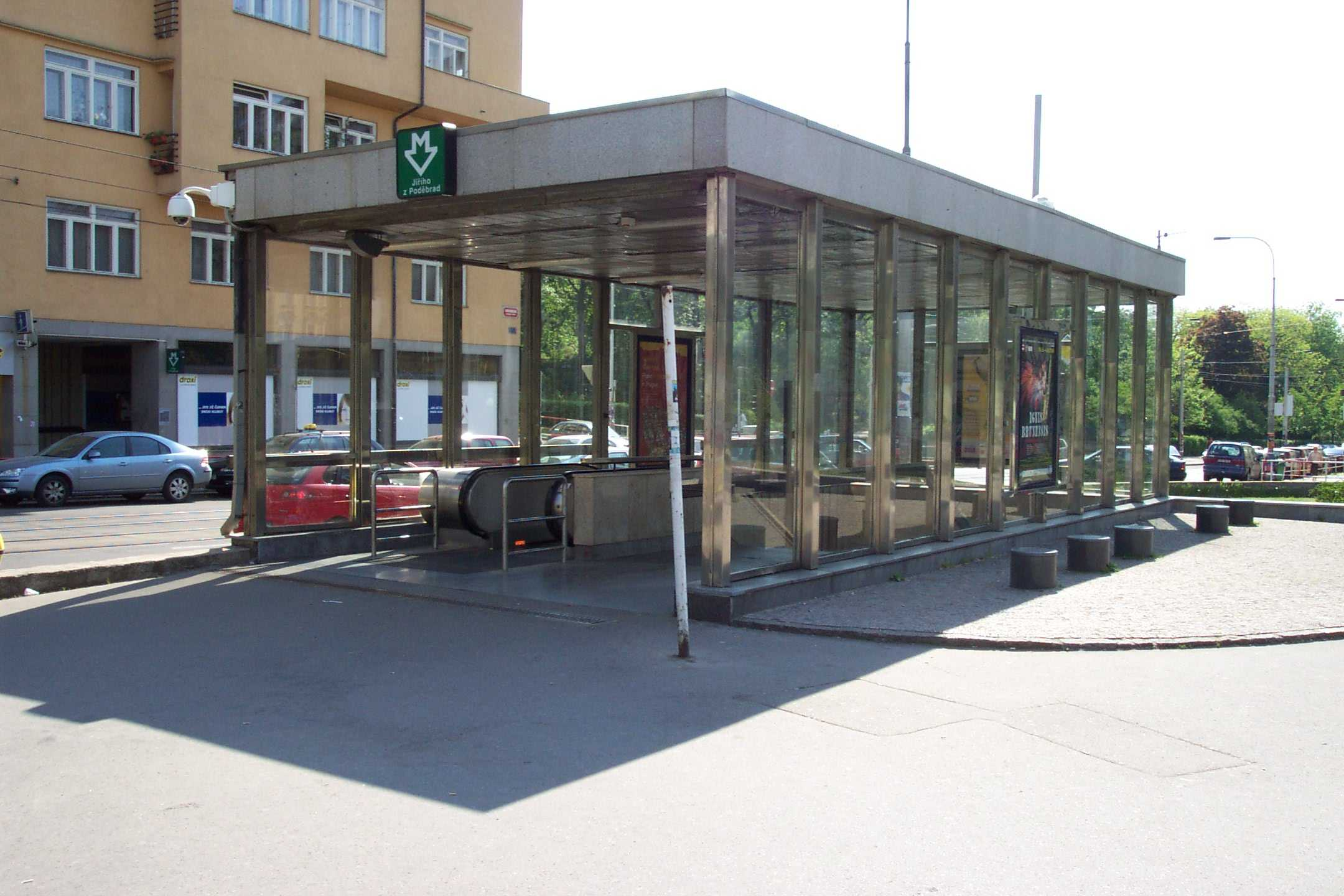 Square Jiřího z Poděbrad in Prague, exit from metro station